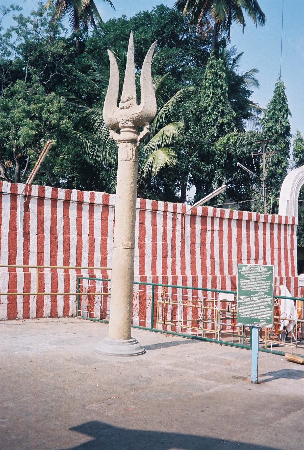 A Trident of Lord Shiva outside the Sri Gangadarewara temple at Bangalore.